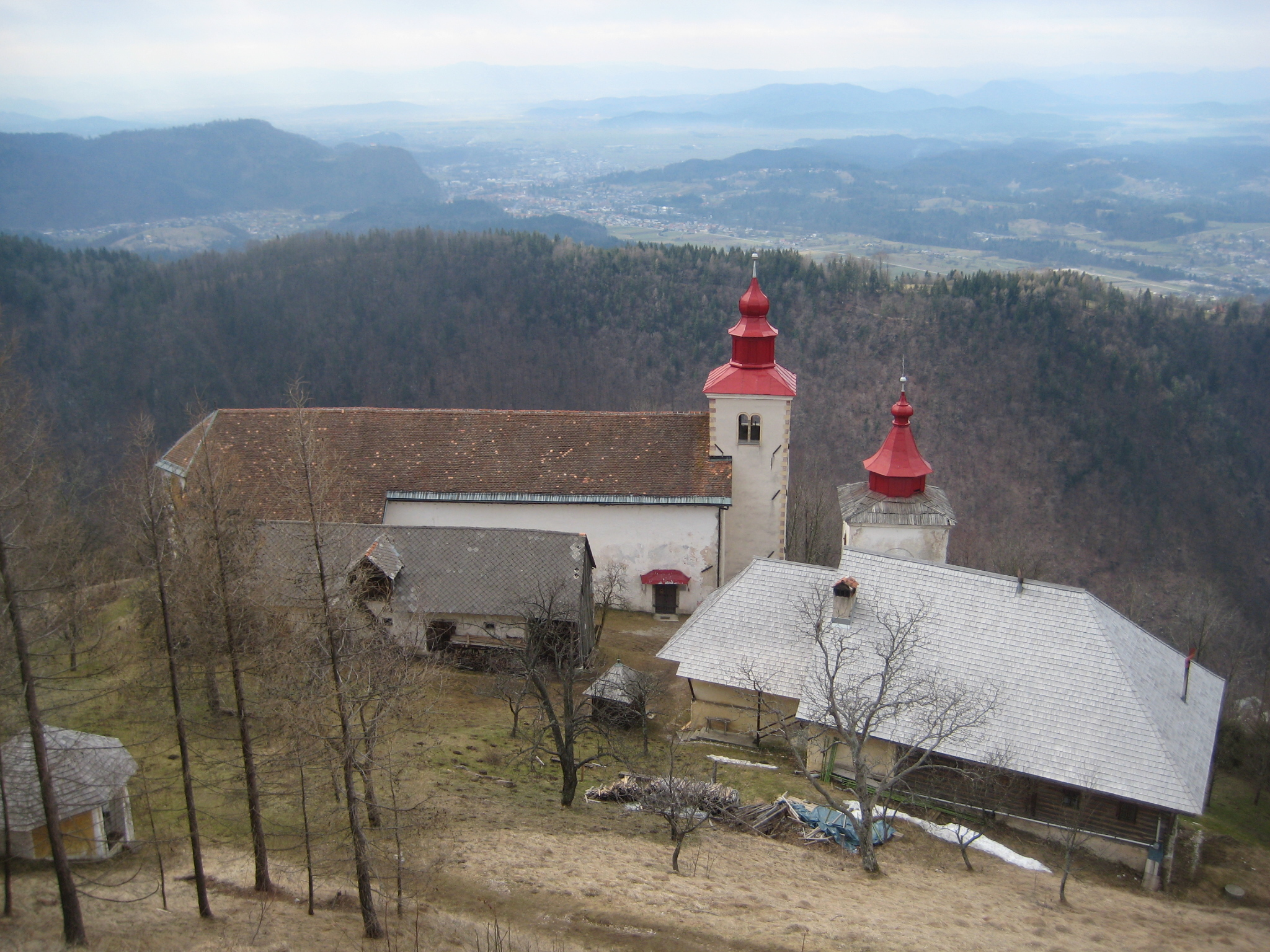 St. Primož nad Kamnikom, gothic church from 1452 (Slovenia)